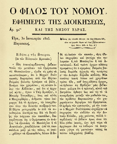 O Filos tou Nomou, Efimeris tis Dioikiseos (Ο Φίλος του Νόμου, Εφημερίς της Διοικήσεως) The Friend of the Law, Journal of the Government Official Journal of the Temporary Greek Administration from 1824-1825 (journal continued until 1827)